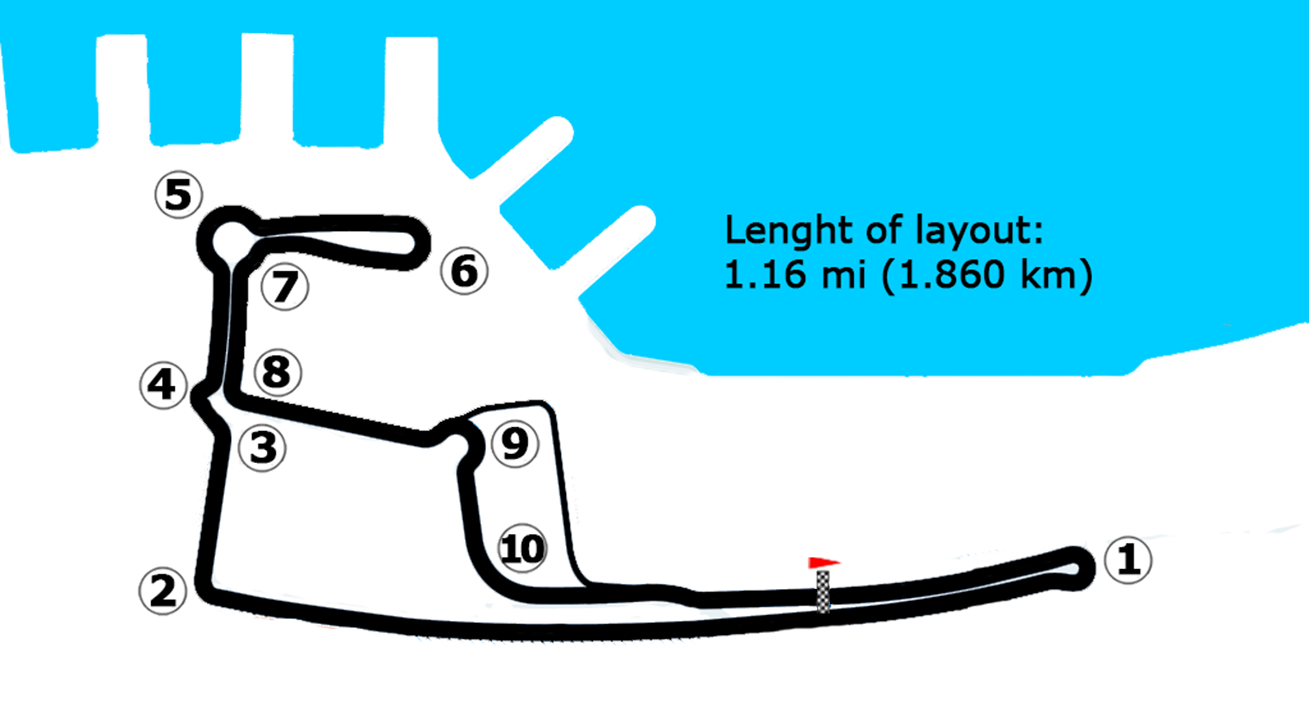 Hong Kong Central Habourfront Circuit